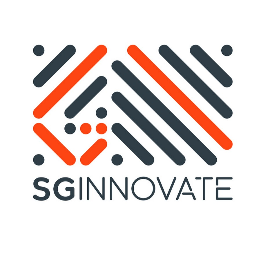 SGinnovate Logo